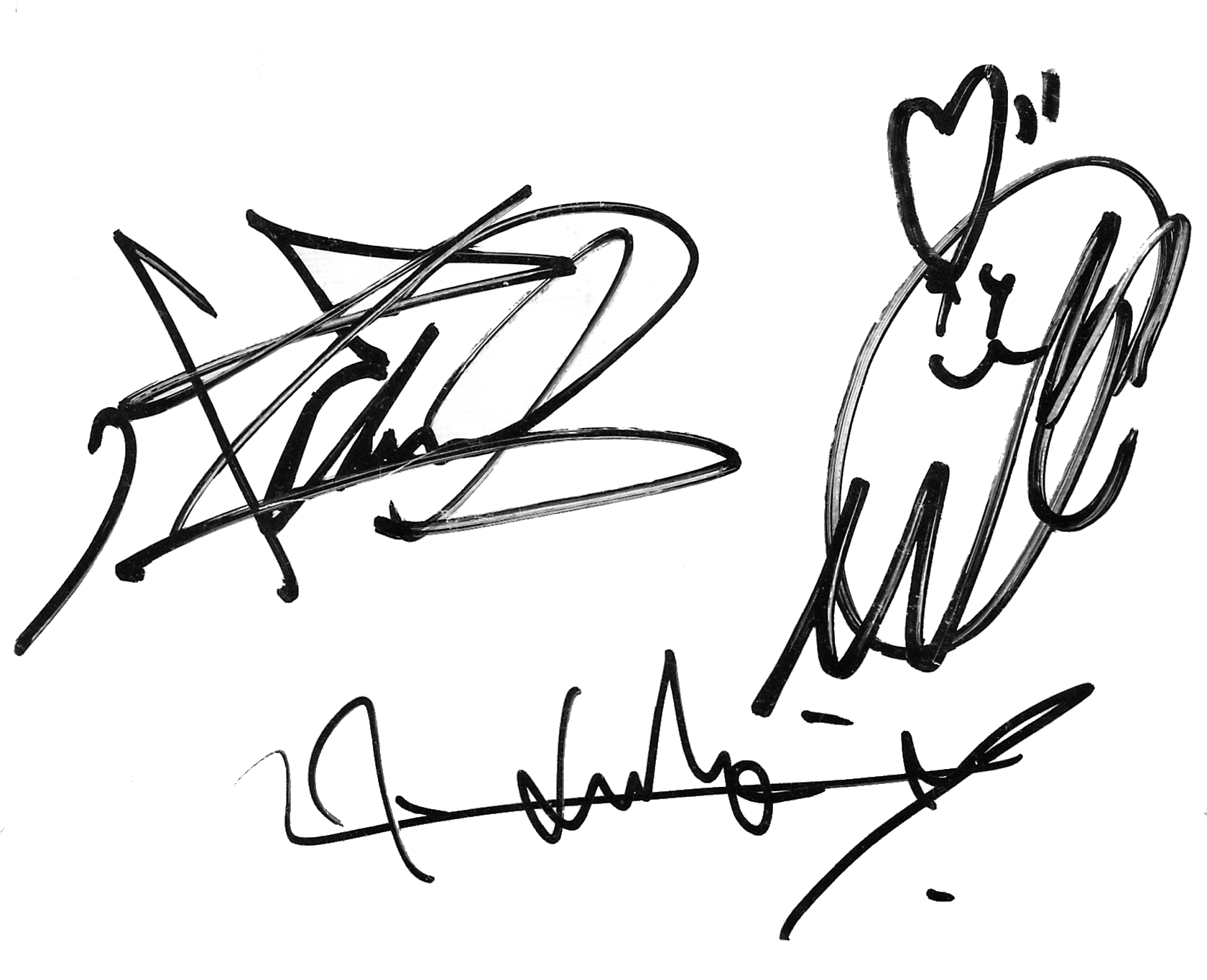 Masai Hikaru, Ootaki Wakana & Kubota Keiko digitalized signatures (got by myself at AnimagiC in 2012).